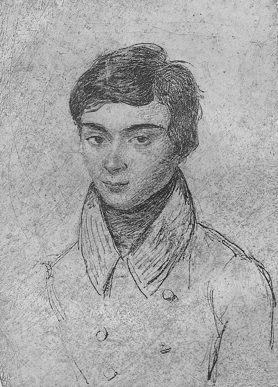 Évariste Galois 15 years old (direct pencil portrait)